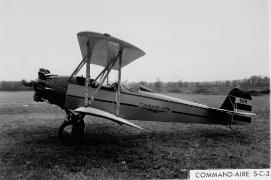 Catalog #: 00063906 Manufacturer: Command-Aire Designation: 5C3 Official Nickname: Notes: Repository: San Diego Air and Space Museum Archive